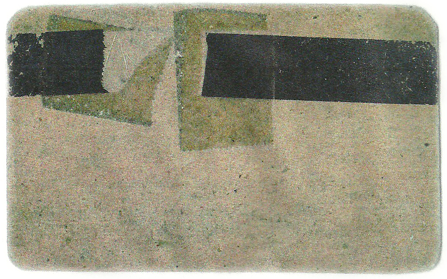 The first prototype of magnetic stripe card made by Forrest Parry and Jerome Svigals of IBM, the prototype was created in 1960's. It is a piece of cardboard with the size of credit card, with a magnetic cellophane tape sellotaped to it.